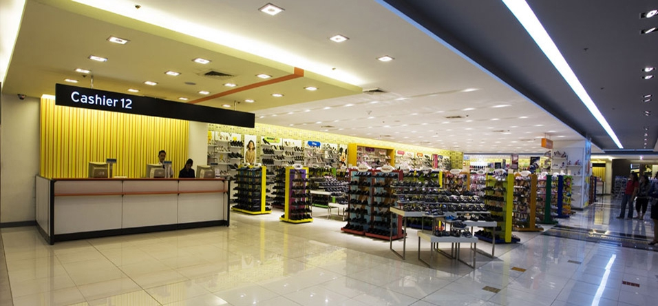 SM Department Store in Cubao, Quezon City, Philippines